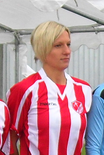 Footballer Leandra Little in Lincoln Ladies colours, September 2010